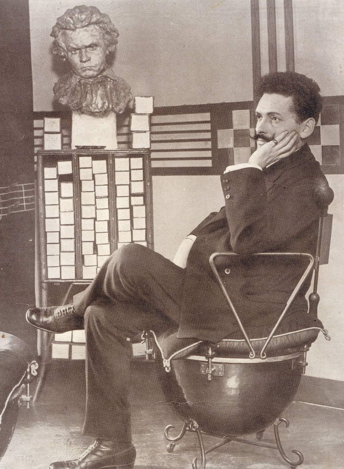 Maestro Serrano